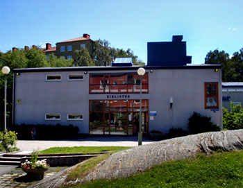 The library in Guldheden (Doktor Fries torg), Göteborg, Sweden